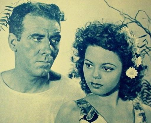 Frank Faylen & Jean Porter in That Nazty Nuisance (1943) aka The Last Three aka Double Crossed Fool - lobby card (cropped)